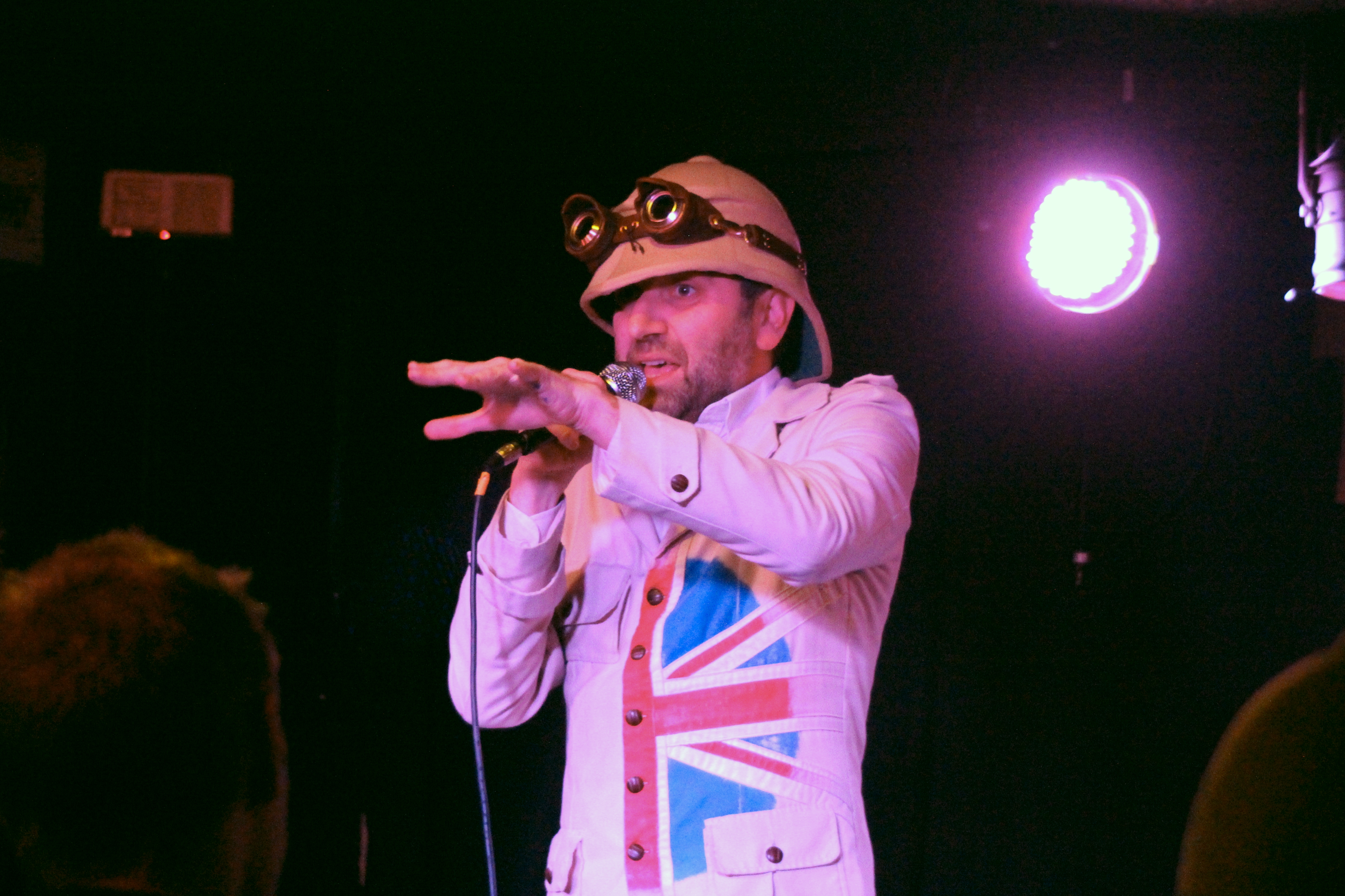 Performing at The New Roscoe, Leeds, November 2015